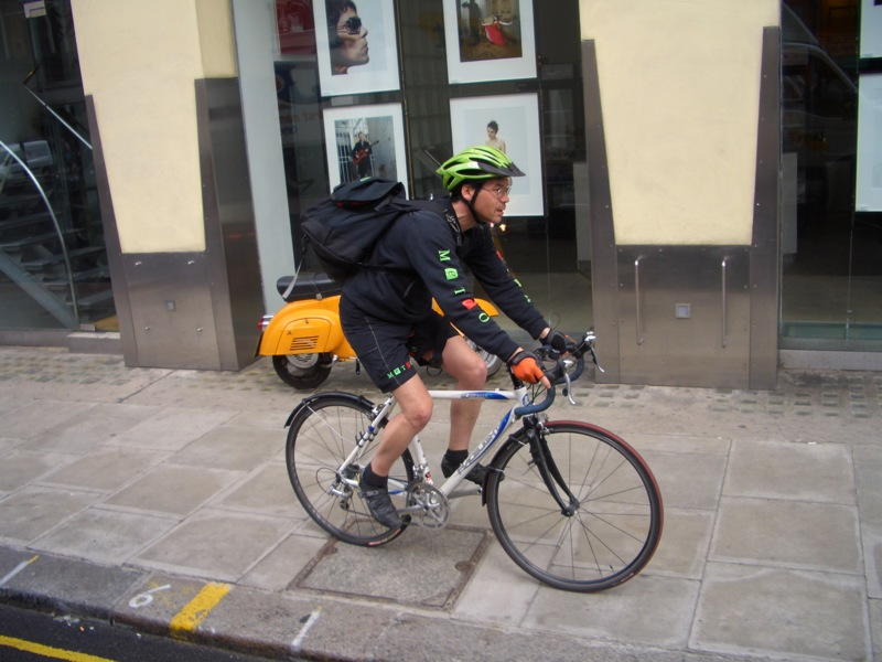 Bicycle messenger, London